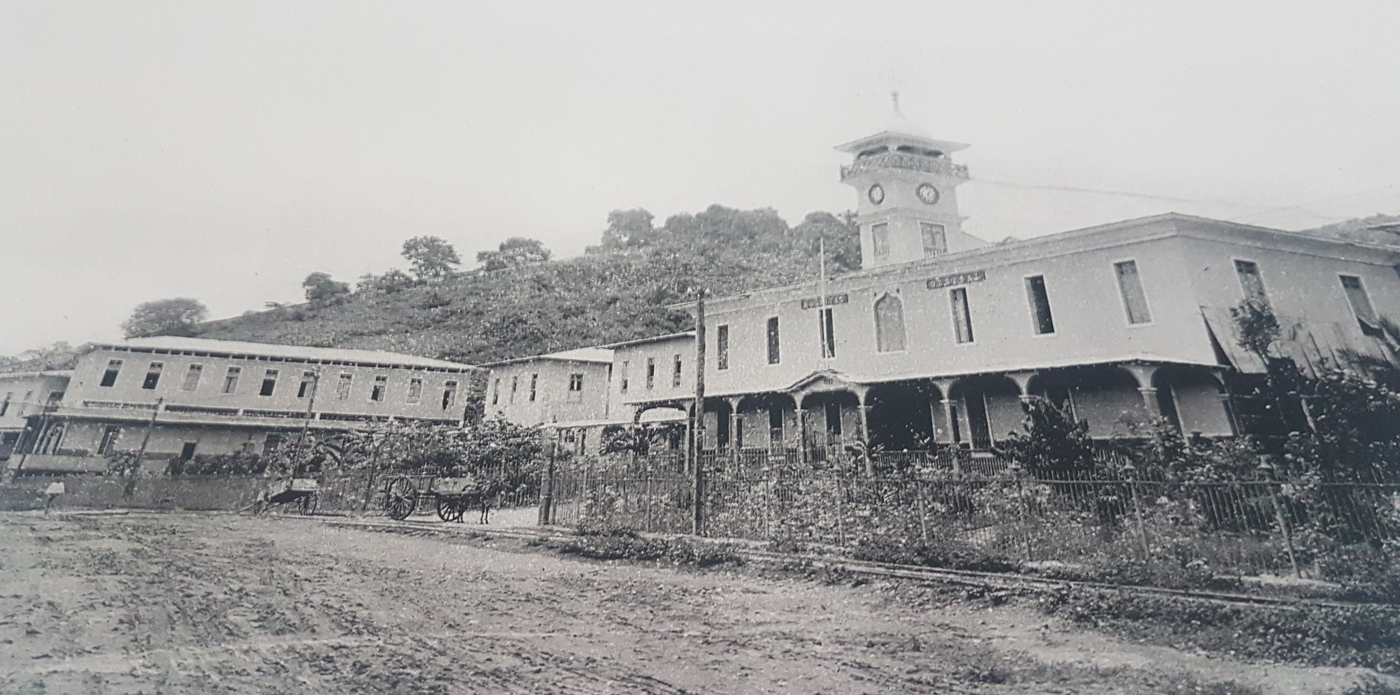 Hospital General (hoy Luis Vernaza) en 1915